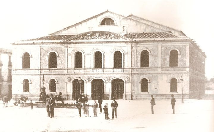 Guerra Theater in Lorca in 1868